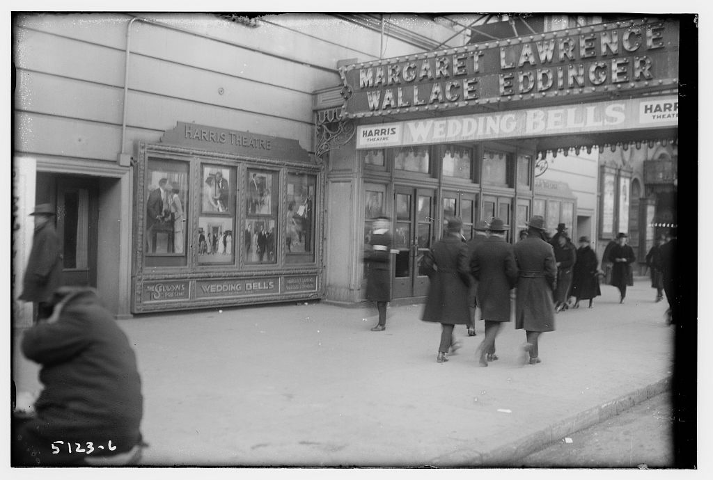 Harris Theatre Marquee - late 1919 or early 1920, showing the play Wedding Bells featuring Walter Eddinger and Margaret Lawrence